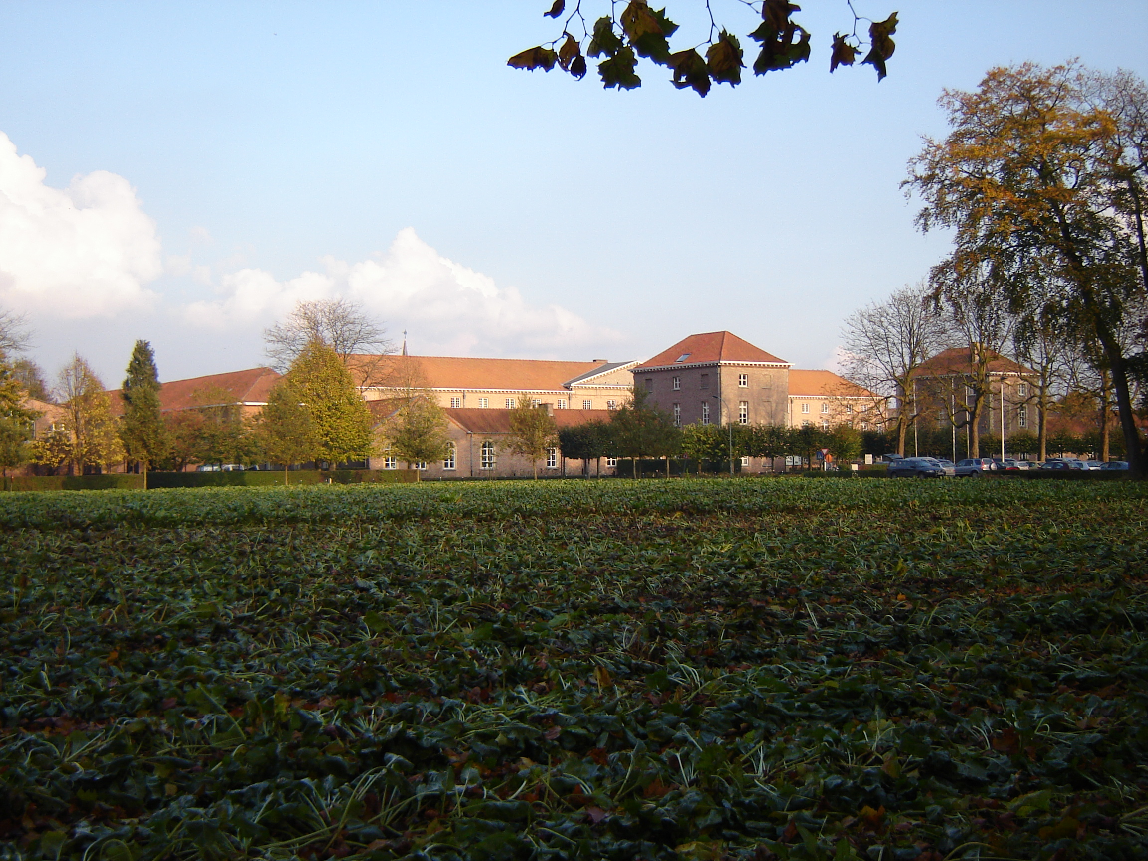 Complex on the Sint-Pietersveld in Ruiselede (on the border with Wingene)